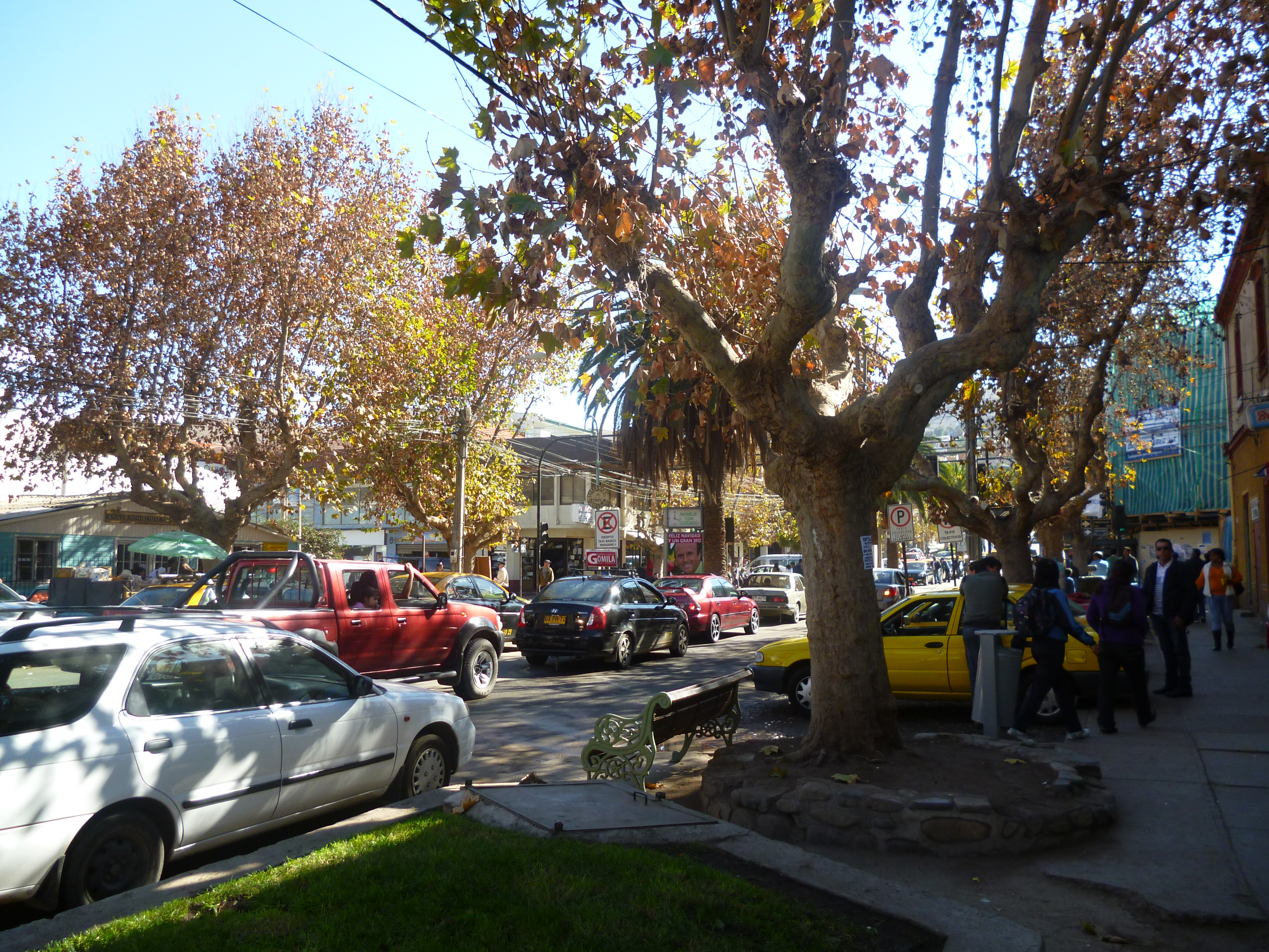 Ignacio Silva Avenue.